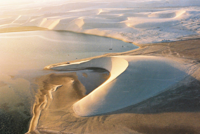 Sand dunes near Khawr al Udayd, photographed in 2004.